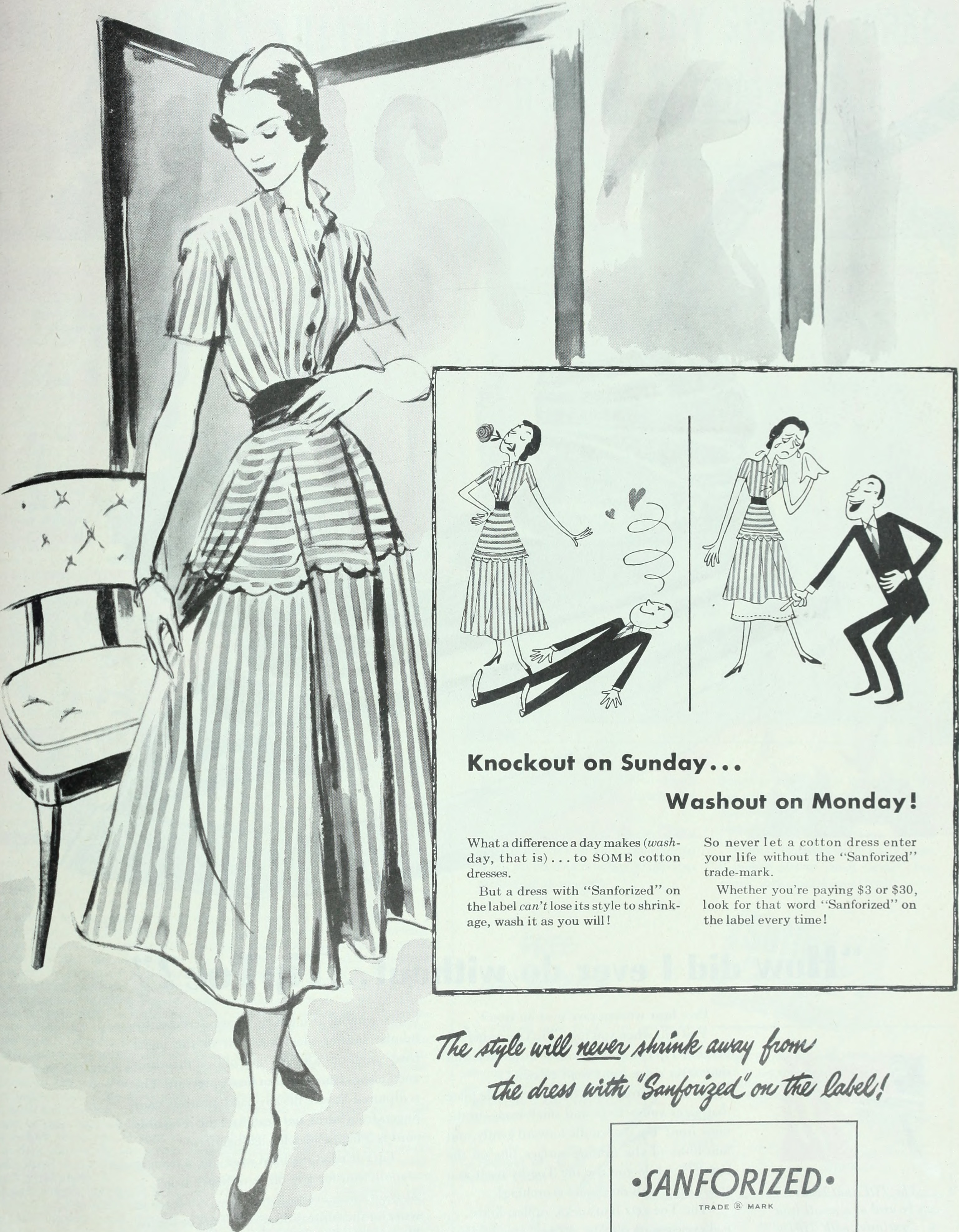 Title: The Ladies' home journal Year: 1889 (1880s) Authors: Wyeth, N. C. (Newell Convers), 1882-1945 Subjects: Women's periodicals Janice Bluestein Longone Culinary Archive Publisher: Philadelphia : (s.n.) Text Appearing Before Image: But hold the pen, the verbal poison and the unhappy messages (unless, of course, you've really behaved badly and want to apologize) when you're "mad" at any boy. A one-sided letter filled with "how dare you do this to me" phrases is no way to talk over a misunderstanding! Nine times out of ten, a gal doesn't mean it when she says "I never want to see you again," but how can a fellow find that out when he's too hurt to call again? Most boys think of girls as "sugar and spice and a lot of Friday-night fun," but a harsh, scolding letter can spoil that picture faster than you think. So don't say anything on paper you wouldn't say in person, for once that letter is in the mailbox, those little men in gray uniforms just won't give it back again! LADIES' HOME JOURNAL 29 Text Appearing Within Image: Knockout on Sunday... Washout on Monday! What a difference a day makes (wash-day, that is)...to SOME cotton dresses. But a dress with "Sanforized" on the label can't lose its style to shrinkage, wash it as you will! So never let a cotton dress enter your life without the "Sanforized" trade-mark. Whether you're paying $3 or $30, look for that word "Sanforized" on the label every time! The style will never shrink away from the dress with "Sanforized" on the label! •SANFORIZED• TRADE ® MARK Text Appearing After Image: Cluett, Peabody & Co., Inc. permits use of its trade-mark "Sanforized," adopted in 1930, only on fabrics which meet this company's rigid shrinkage requirements. Fabrics bearing the trade-mark "Sanforized" will not shrink more than 1% by the Government's standard test.